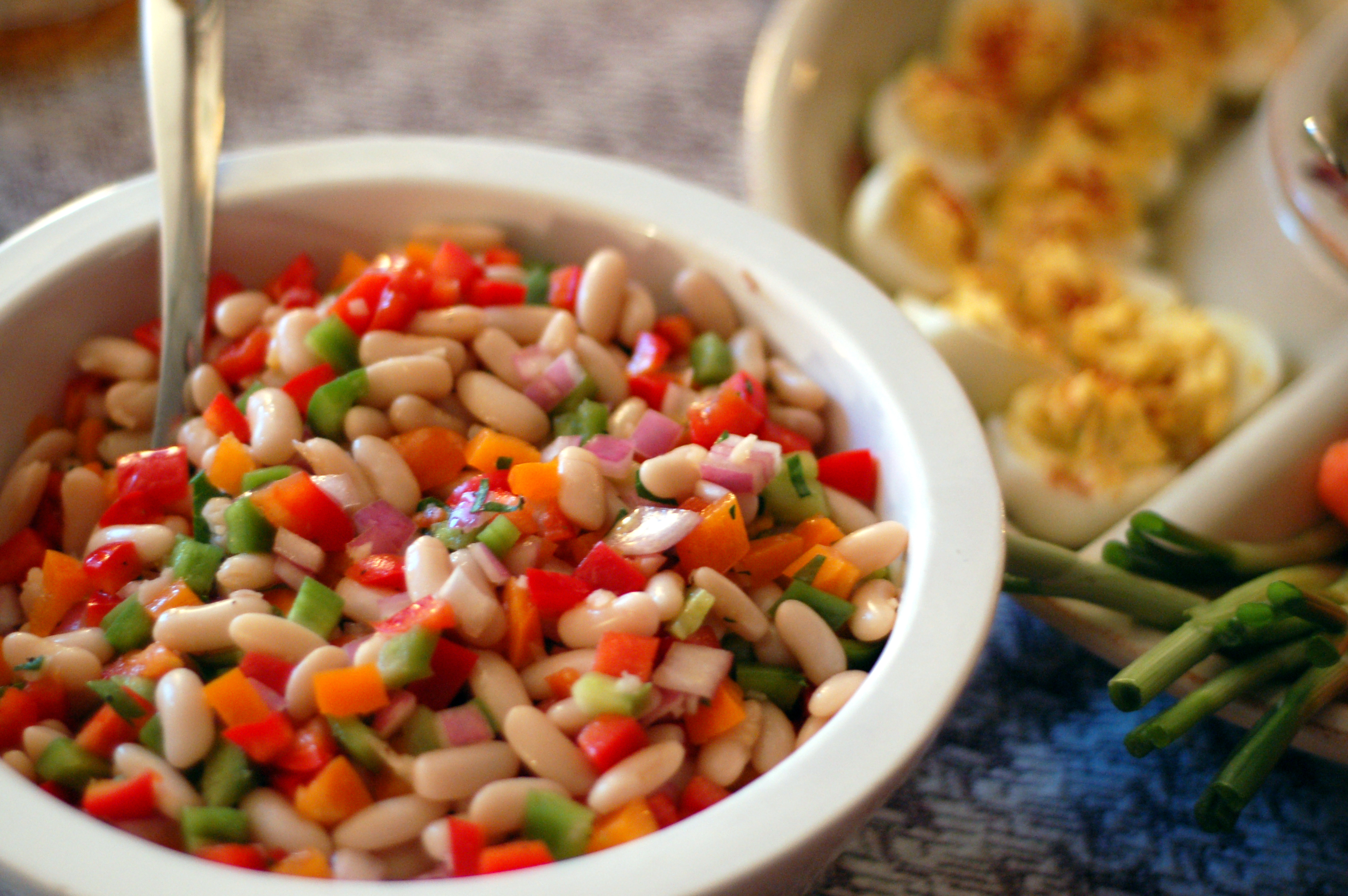 Colourful bean salad.